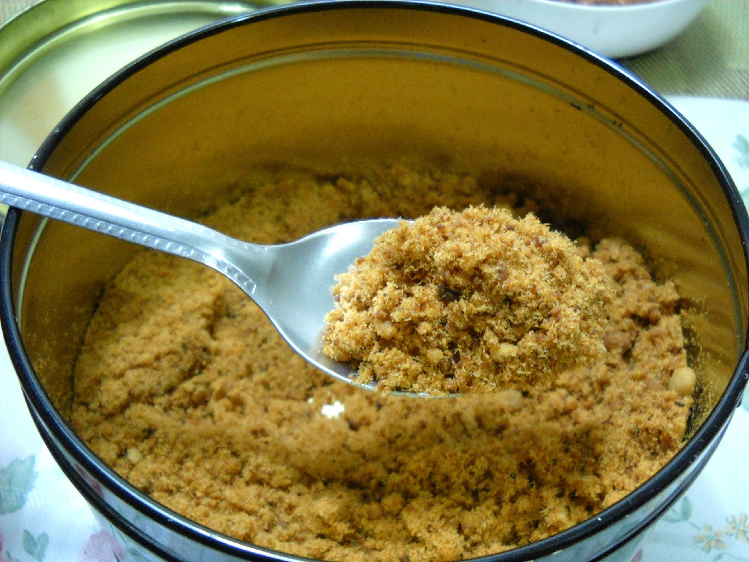 Sambal lingkung, fish rousong, cuisine of Bangka and vicinities of Southern Sumatra.